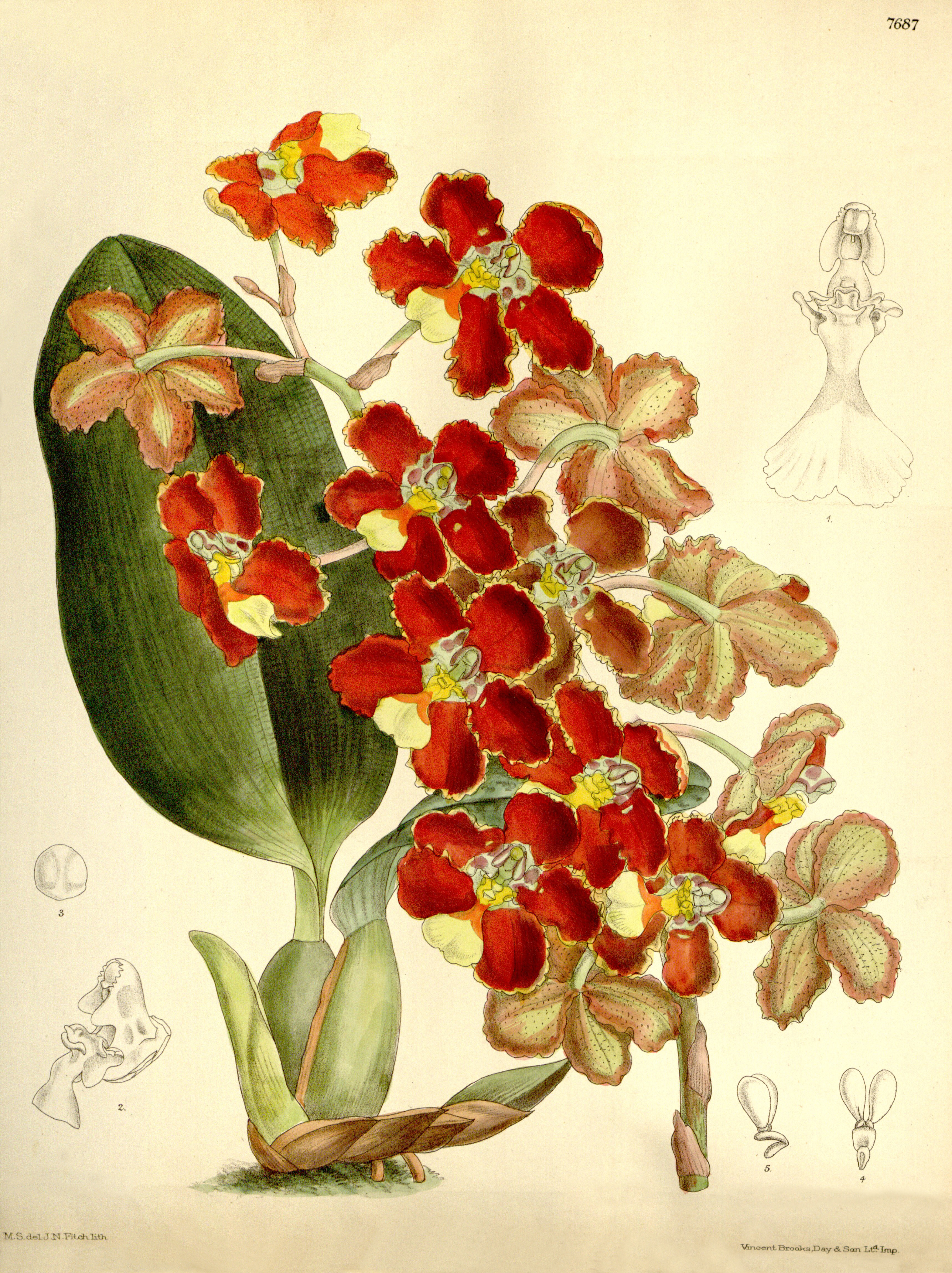 Illustration of Otoglossum brevifolium (as syn. Odontoglossum brevifolium)